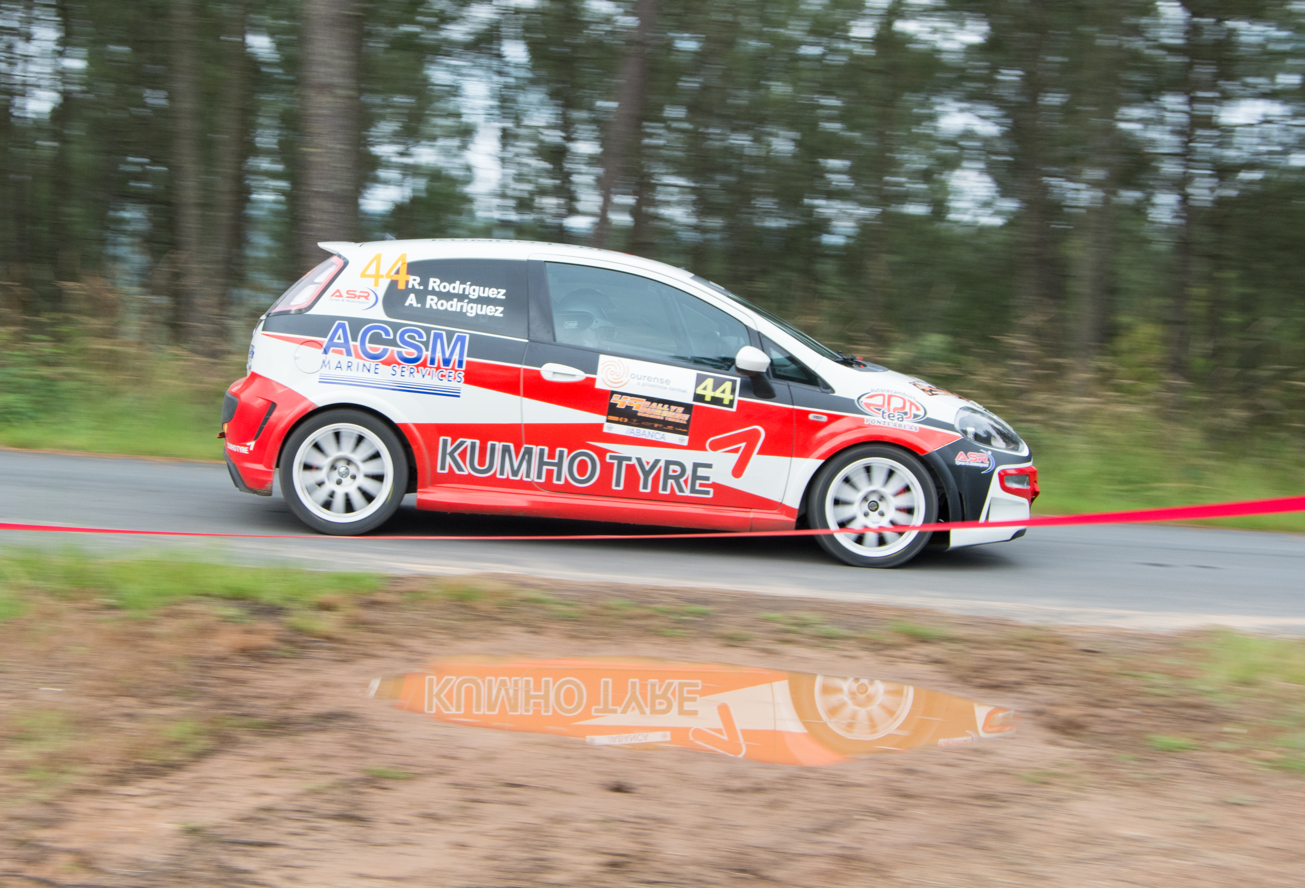 '49 TRally de Ourense ' in 2016, in the city of Ourense, scoring for the CERA.